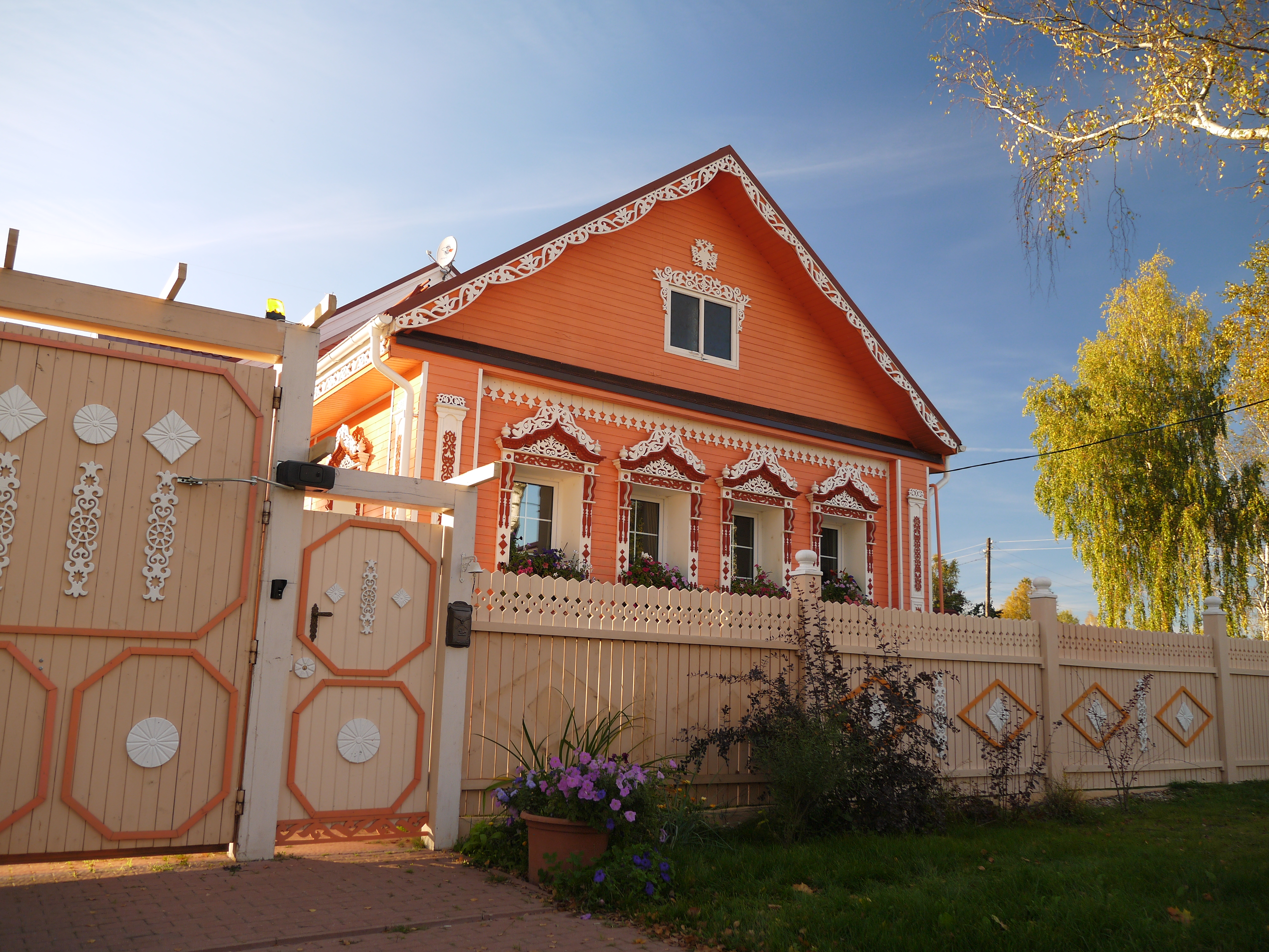 Carefully rebuilt traditional Russian house in Vyatskoe selo, Jaroslavl region.